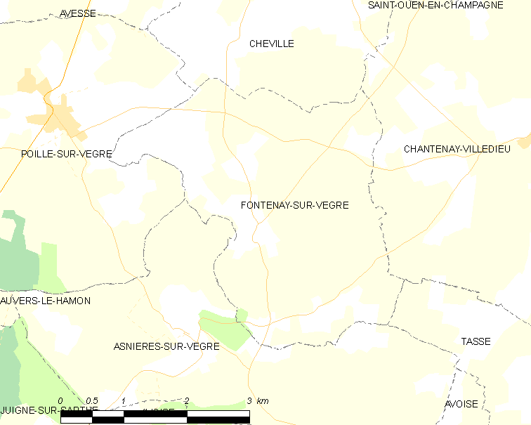 Map of French municipality